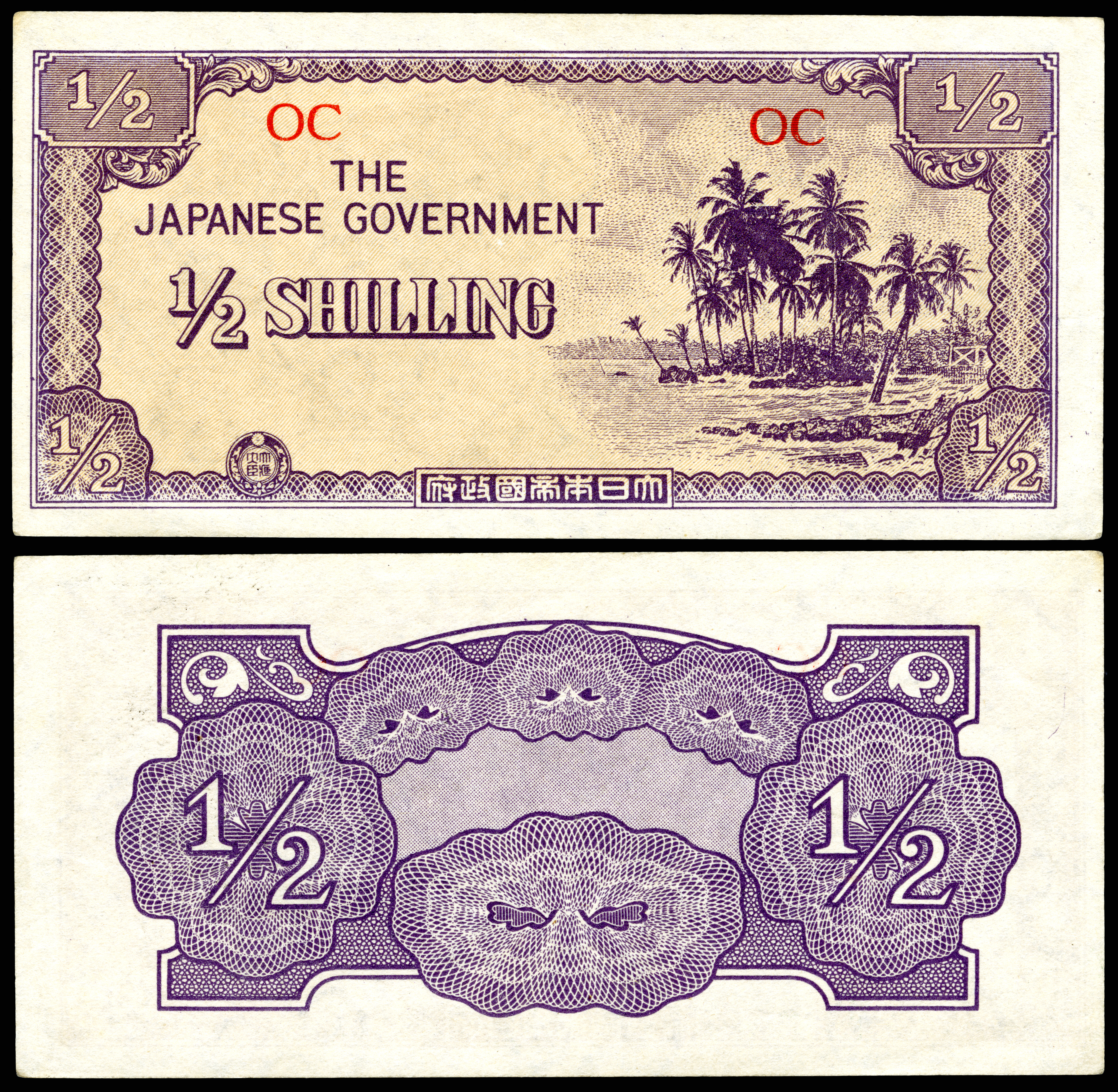 OCE-1a-Oceania-Japanese Occupation-Half Shilling ND (1942)